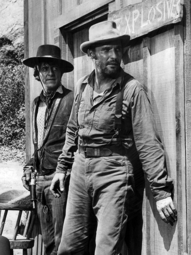 Photo of Henry Darrow and guest star John Vernon from the television program The High Chaparral.